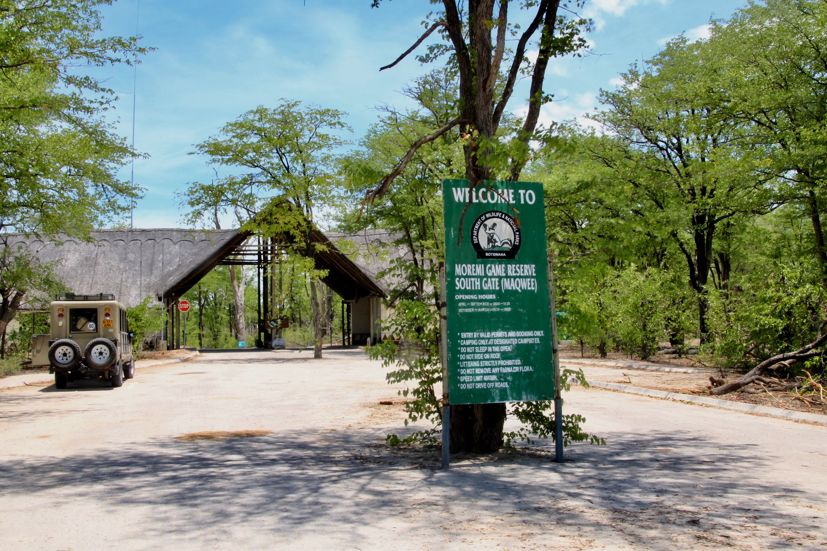 Moremi-Wildreservat) Gate